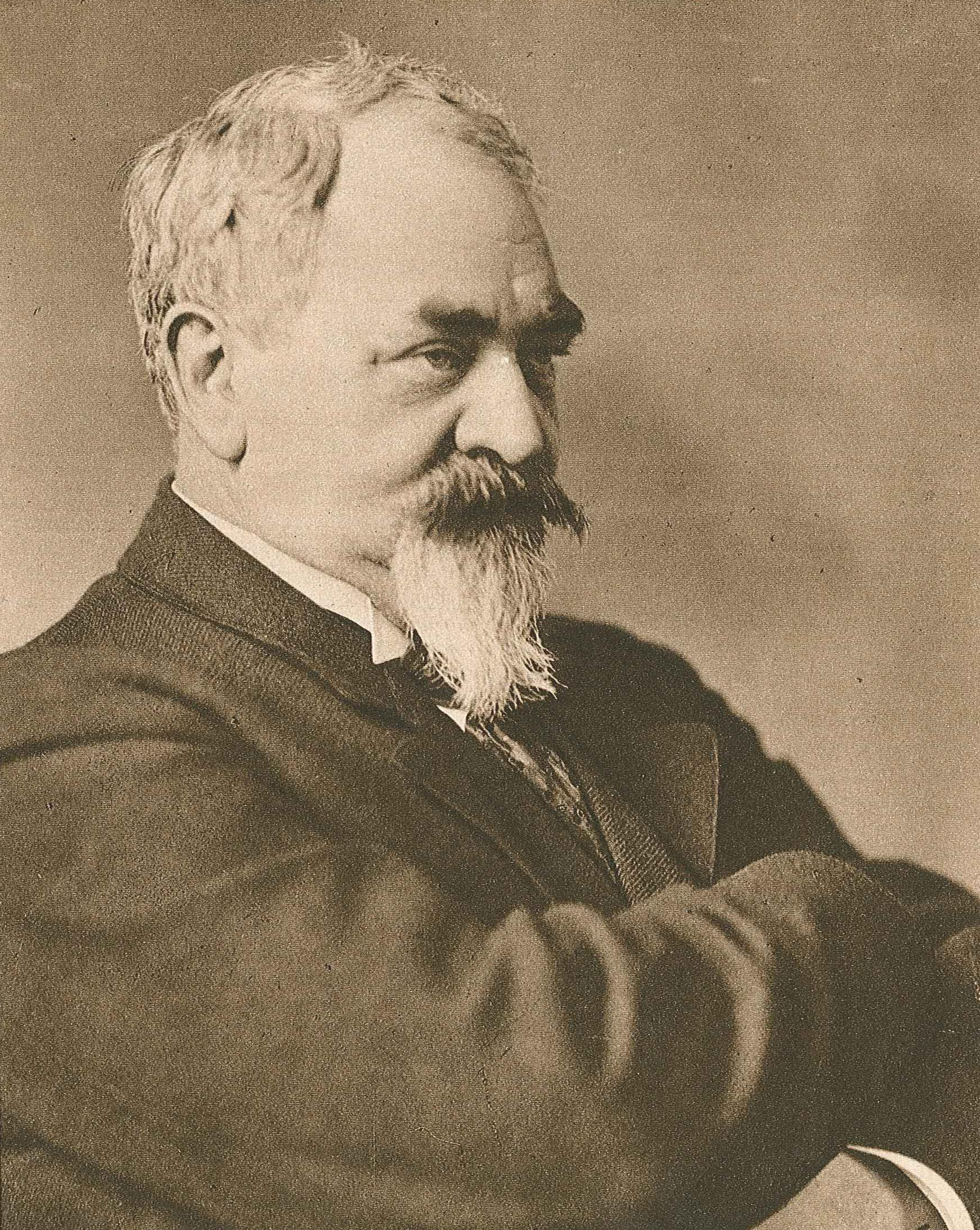 Vicke Andrén (1856-1930), Swedish artist.